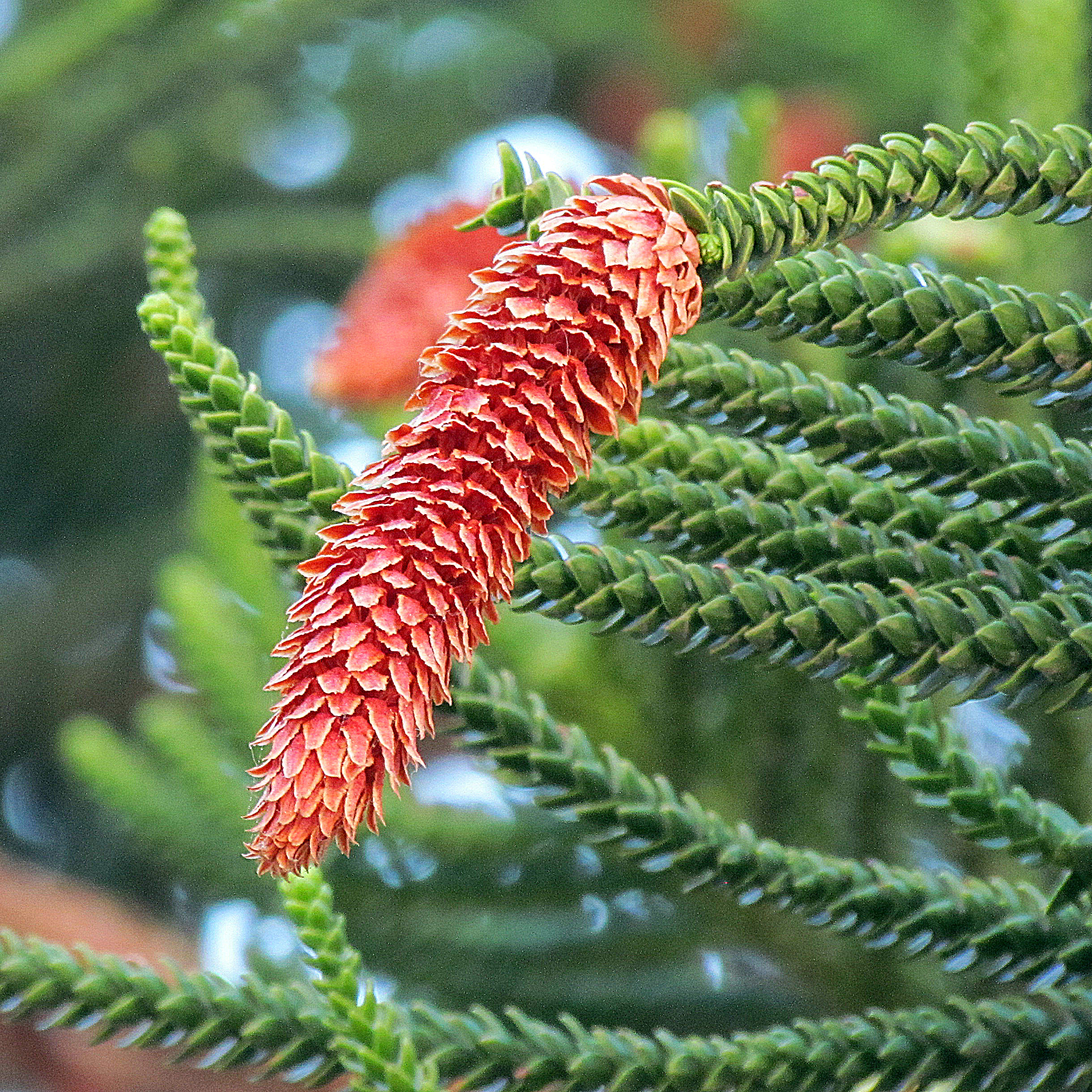 Araucaria columnaris male strobile